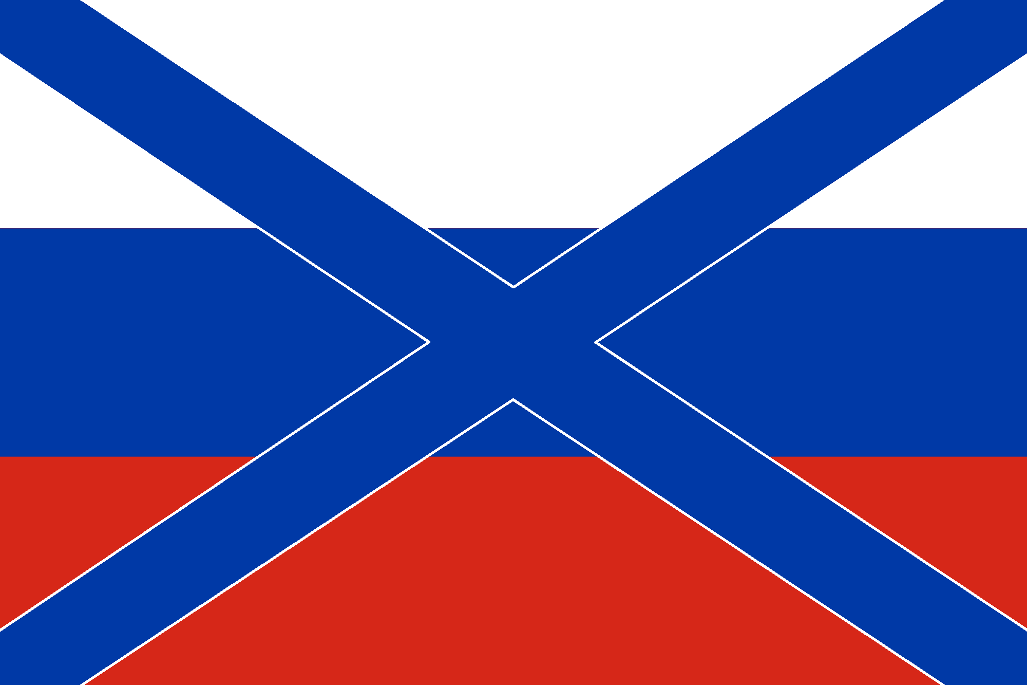 Version of the flag of Russia as envisioned by Russian general Andrei Vlasov after being crossed out by the German Nazi Alfred Rosenberg (according to Sven Steenberg: Wlassow - Verräter oder Patriot? Verlag Wissenschaft und Politik, Köln 1968, p. 91)